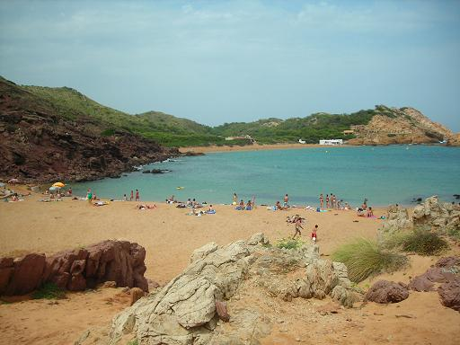 Photo of the beach of Cala Pregonda, in Menorca